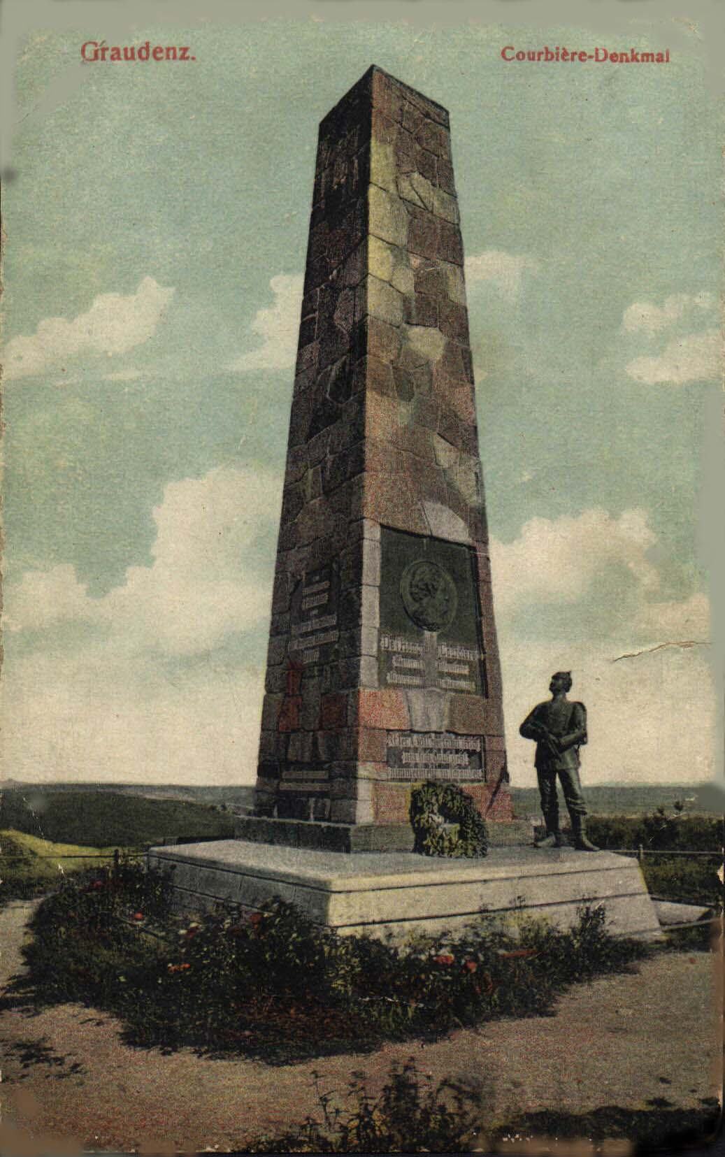 Courbiere memorial at Graudenz